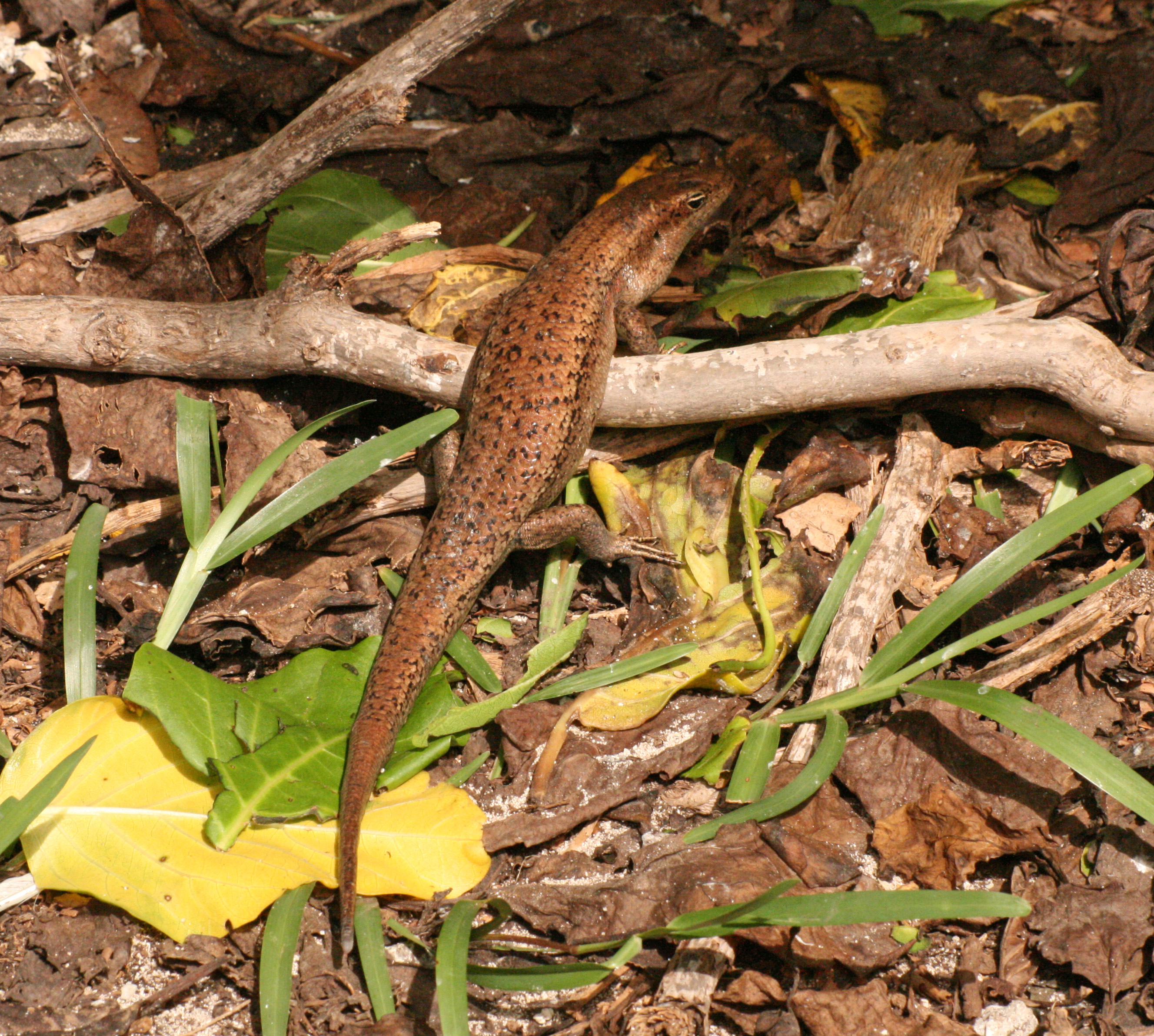 Mabuya wrightii ("Wright's skink") in Cousin Island, Seychelles